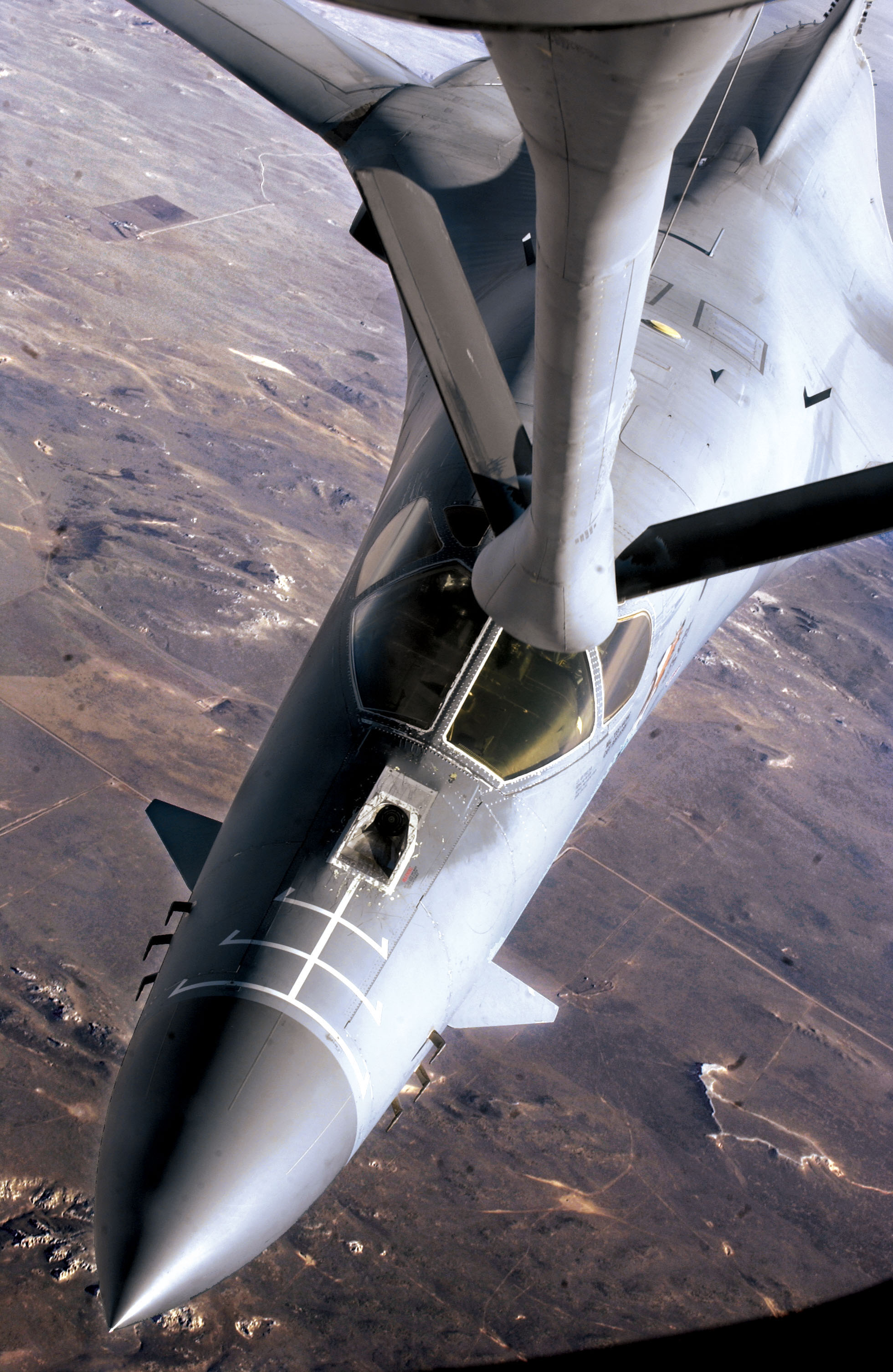 Grand Forks Air Force Base, North Dakota, USA. A B-1 Lancer from Ellsworth Air Force Base, South Dakota, negotiates its way to an aerial refueling boom of a KC-135 Stratotanker from the 905th Air Refueling Wing.